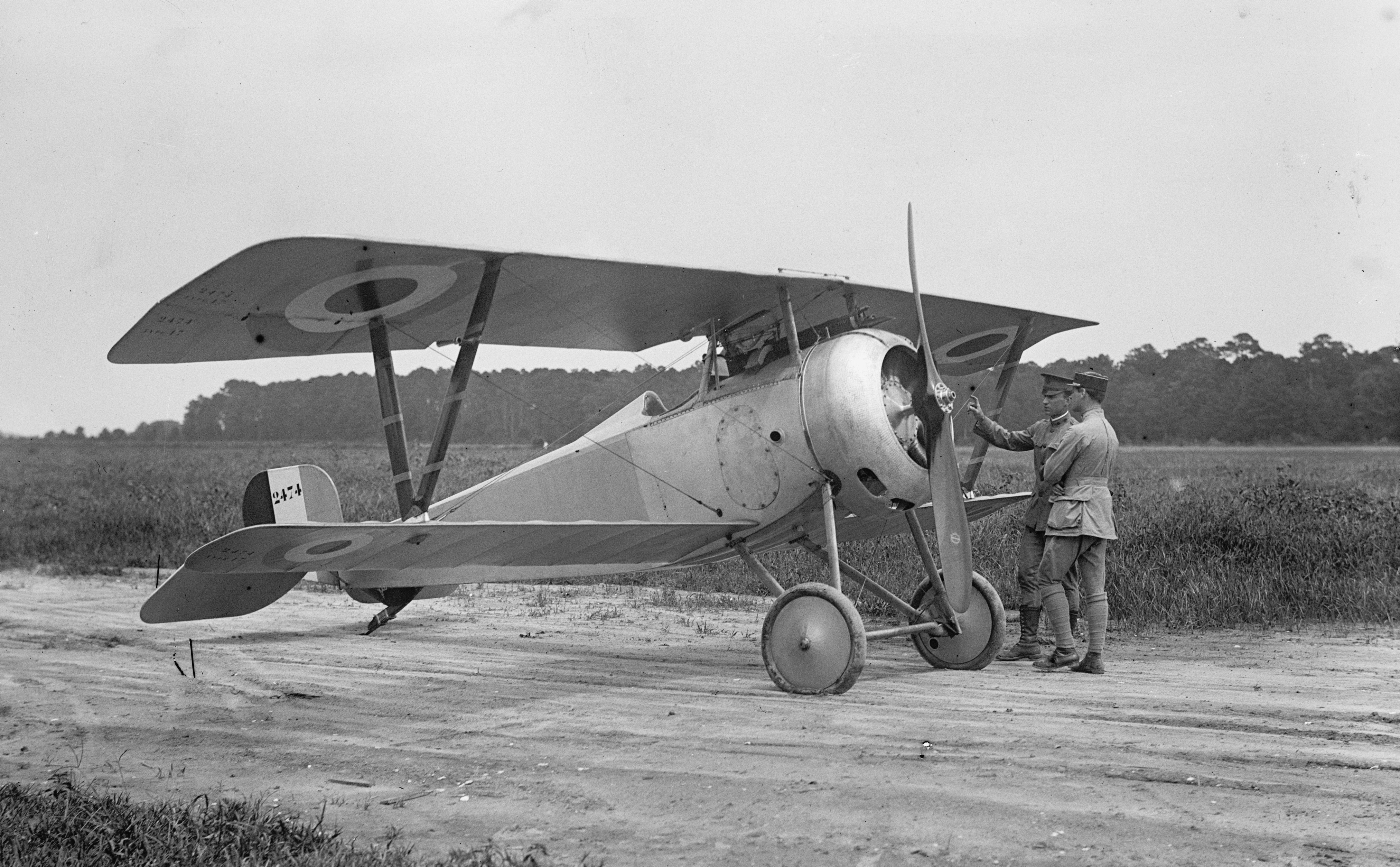 LANGLEY FIELD, VA. FRENCH NIEUPORT PLANE, TYPE 17, WITH LT., E. LeMAITRE AND CAPT. J.C. BARTOLF